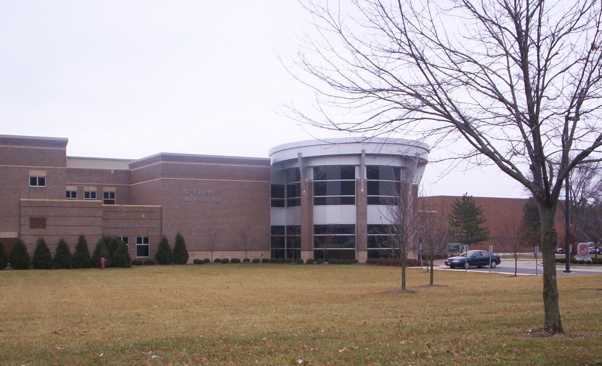 A view of Maynard Hall at the Ohio State University Marion Campus.